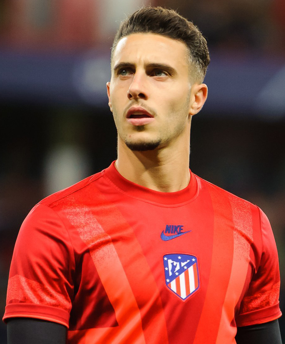 Spanish footballer Mario Hermoso on 1 October 2019, before the the UEFA Champions League match between Atlético Madrid and Lokomotiv in Moscow.